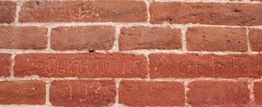 Mataró. Antigua prisión. Grafiti de un preso.